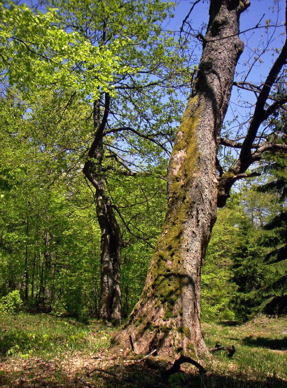 Puszcza Śnieżnej Białki Sanctuary in Bialskie Mountains, Sudety Mountains, Poland